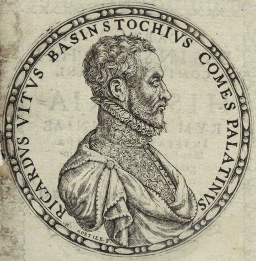 Portrait of Richard White of Basingstoke (1539–1611), English jurist and historian.